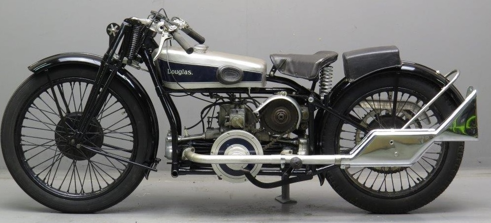 1931 Douglas F 31 500 cc OHV motorcyle